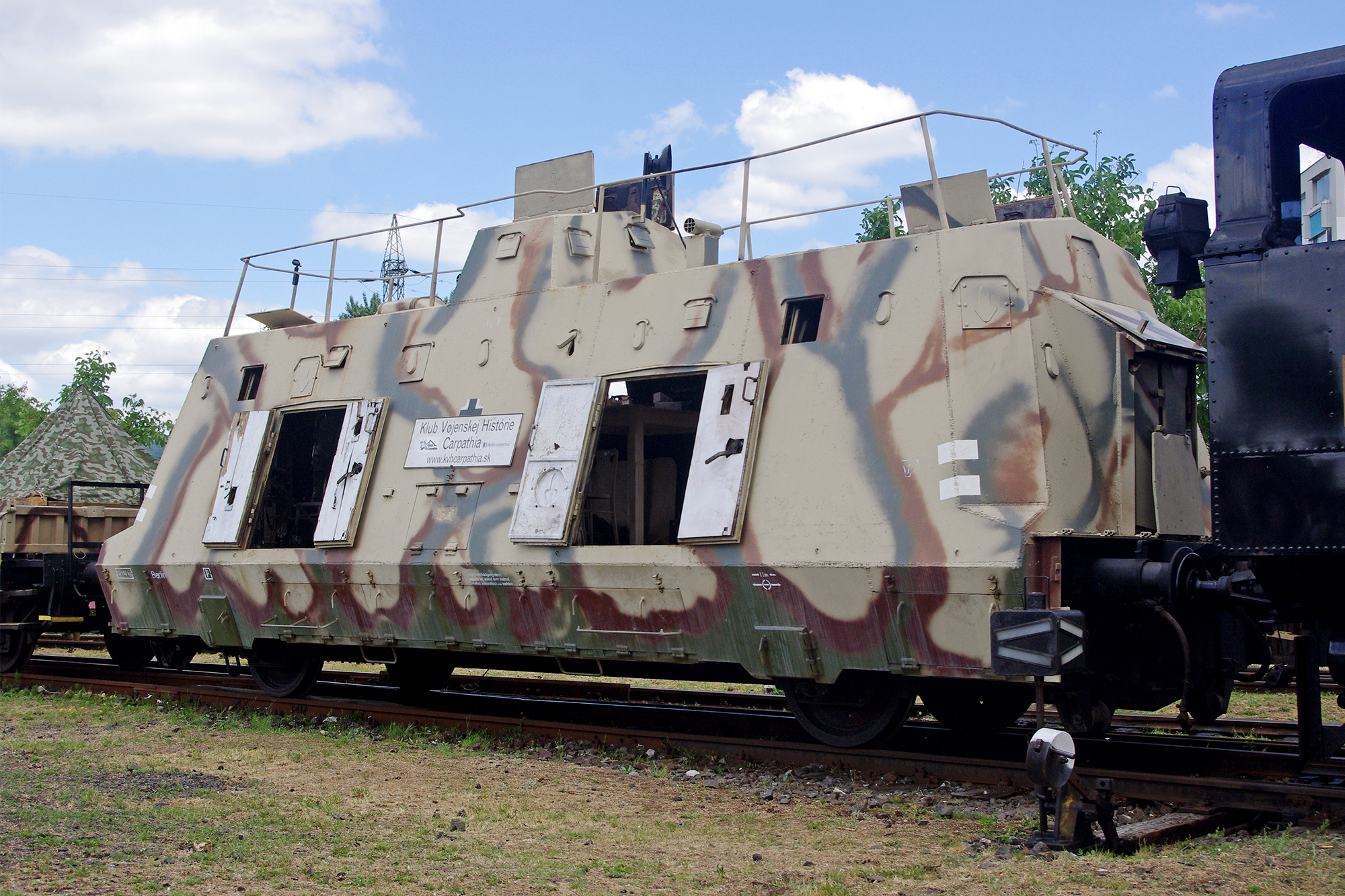 Command car of german armoured train BP-42 from Railway Museum Rendez in Bratislava.